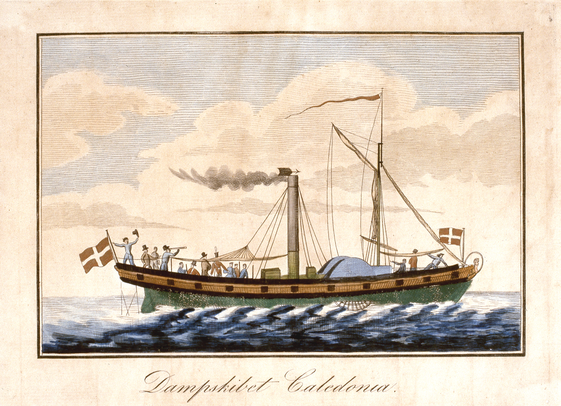 Denmark's first steamship, the paddle steamer Caledonia, was acquired used in England in 1819 and served as a mail and passenger steamer on the route between Copenhagen and Kiel. The image, which appears to be a lithograph, probably dates to the active years of the ship, and no later than 1897, when it was used in the book "Vort folk i det nittende aarhundrede". File in mfs.dk (see source). The original file is labelled CC-BY-NC-SA to "M/S Museet for Søfart" (Danish Maritime Museum).